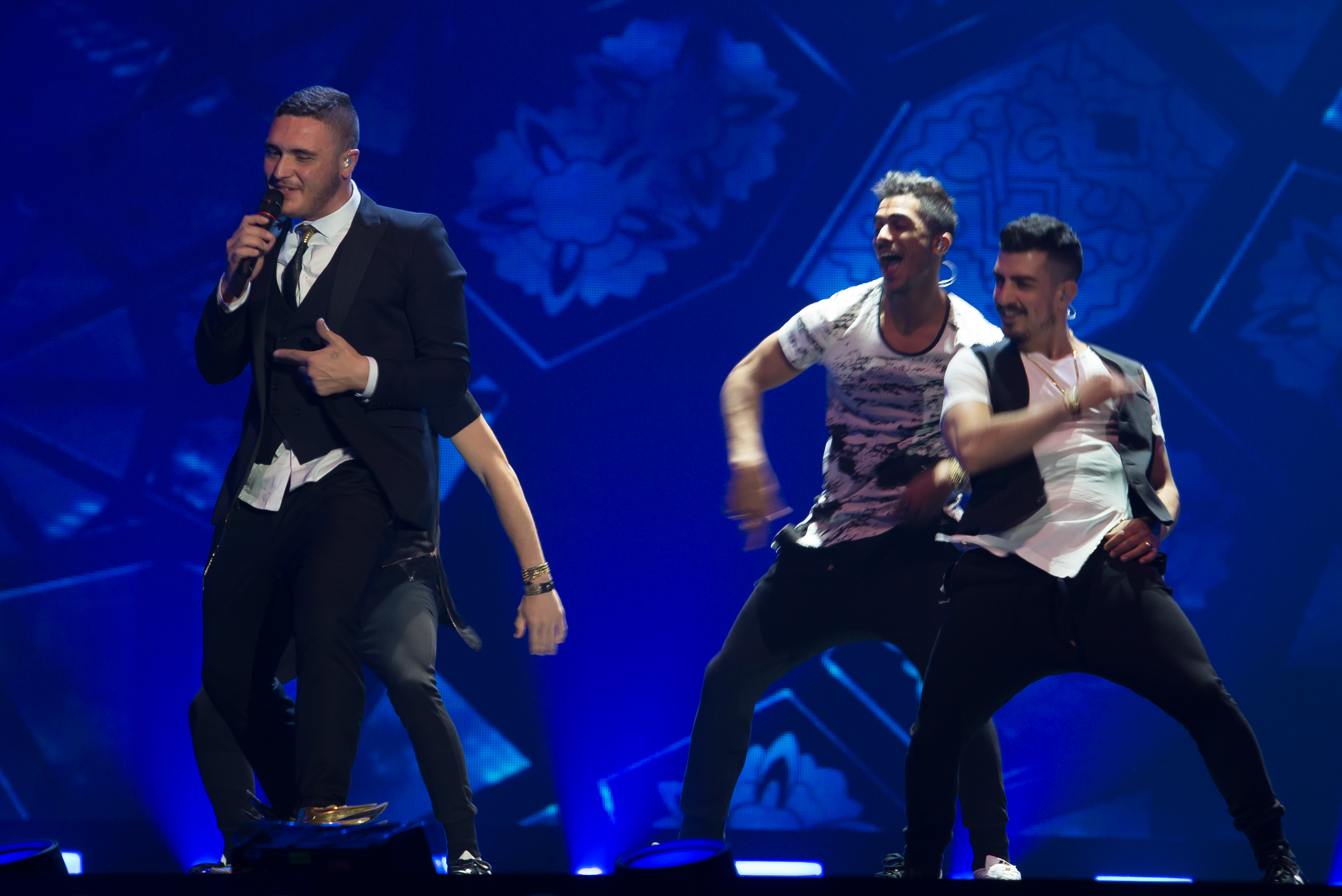 Eurovision Song Contest Vienna 2015: Nadav Guedj